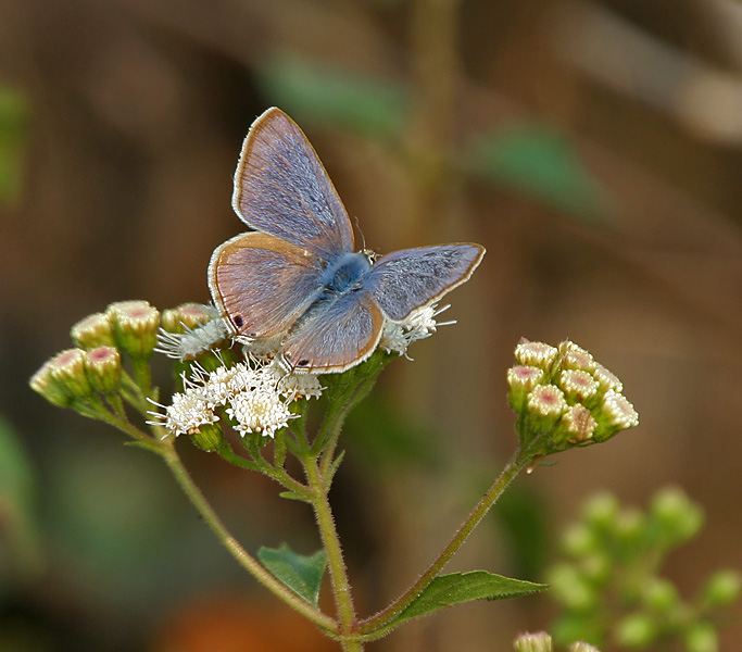 Pea Blue Lampides boeticus at Samsing in Darjeeling district of West Bengal, India.